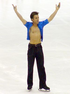 Michael Weiss during the exhibition at the 2004 NHK Trophy.